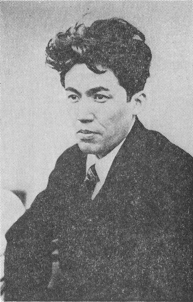 Photograph of Koga Harue